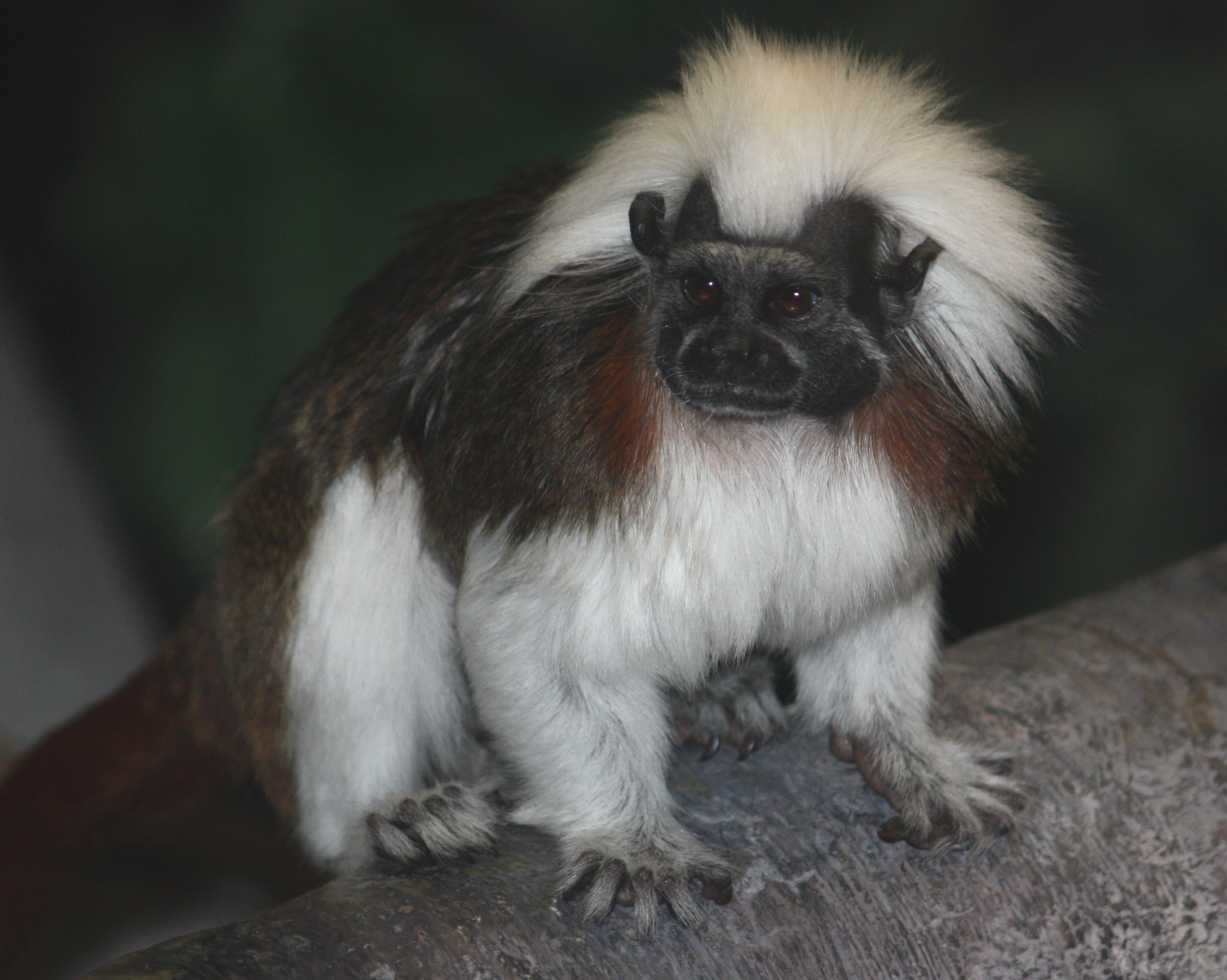 Cotton Top Tamarin Saguinus oedipus at Binder Park Zoo in Battle Creek, Michigan